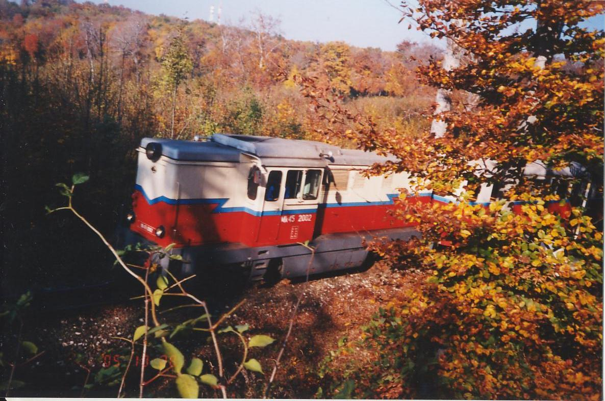 Diesel locomotive on Budapest Children's Railway.